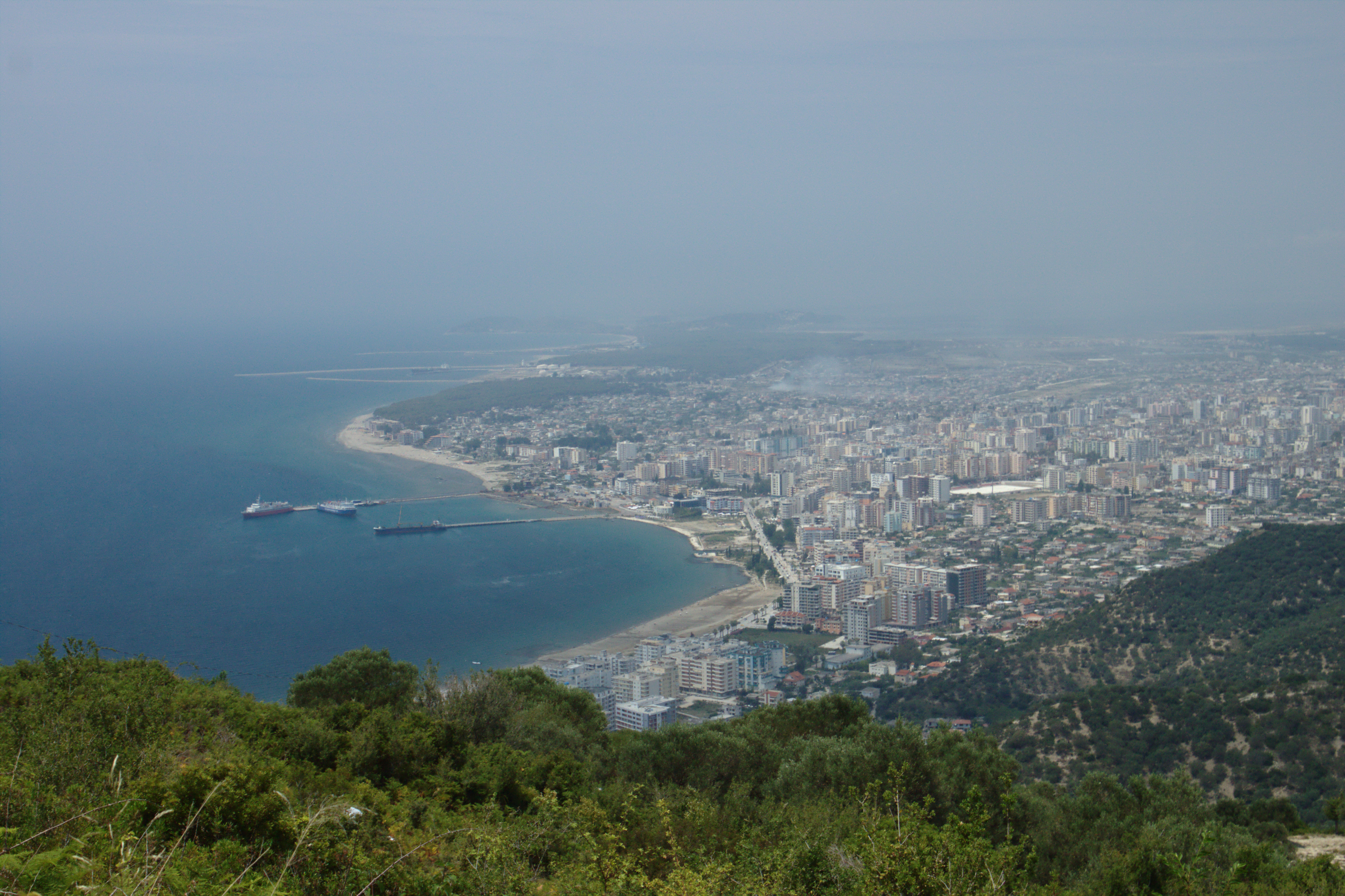 View of the town of Vlora from the Kaninë village, Albania